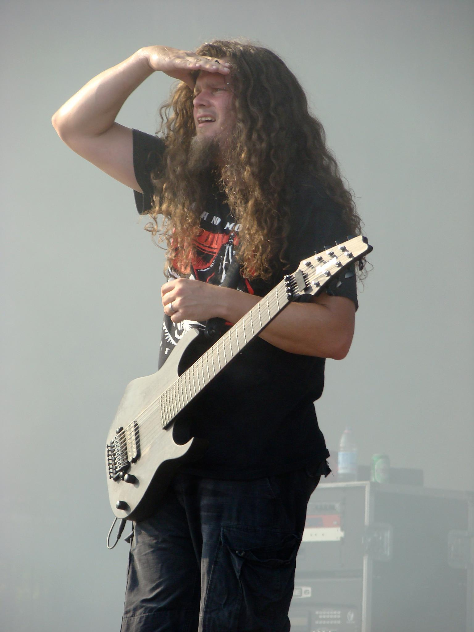 Guitarist Mårten Hagström from the Swedish band Meshuggah performing on a live show with Meshuggah in Bolzano, Italy - June 29, 2008.